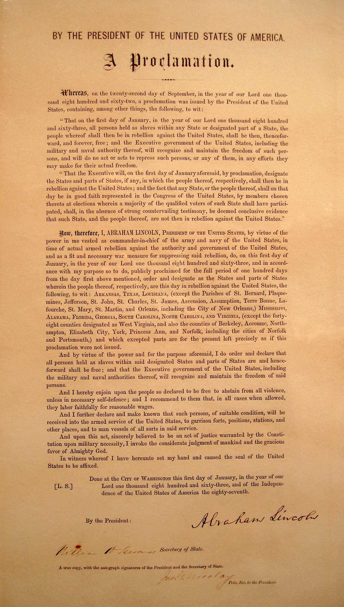 High resolution photograph of a typeset, signed, and framed copy ("Leland-Boker Authorized Edition", printed in June 1864) of the Emancipation Proclamation on display at the Pennsylvania State University Special Collections Library from March 2006 to February 2007. (University press release.) Several small glare spots appear that do not obscure the underlying text. Photograph taken with permission.